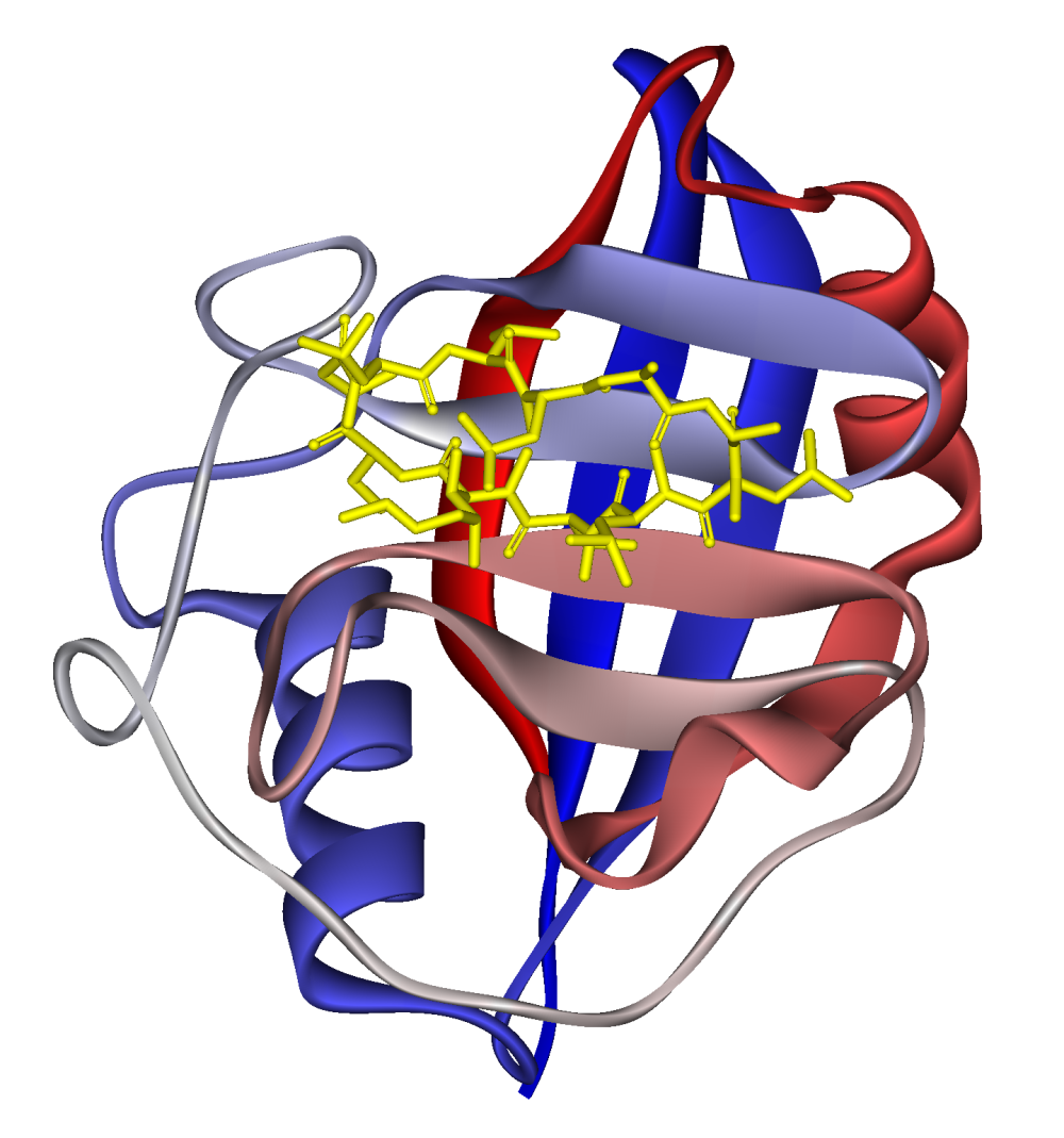 Ribbon diagram of human cyclophilin A in complex with ciclosporin. Created using Accelrys DS Visualizer Pro 1.6 and GIMP. Legend Ciclosporin